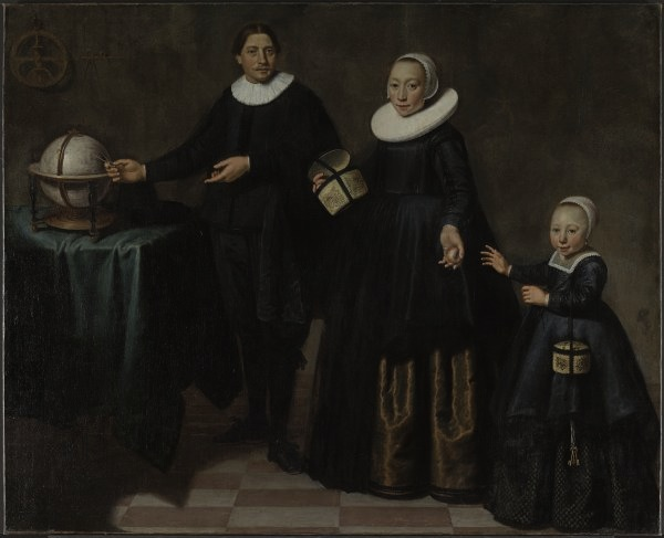 Portrait of Abel Tasman, his wife and daughter.